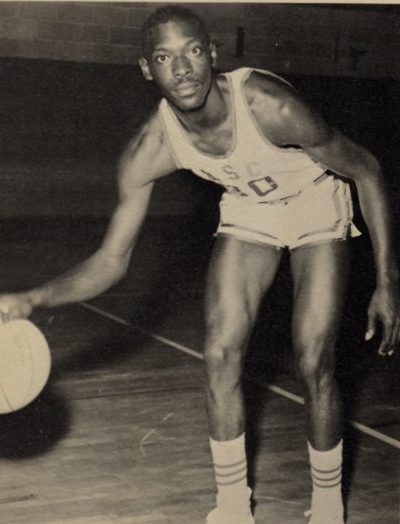 American basketball player Mack Daughtry of Albany State University In 1968 from the 1968 ASU student yearbook